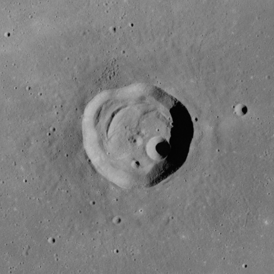 Peirce, Mare Crisium, on the moon. Camera altitude 226 km, sun elevation 25 deg.